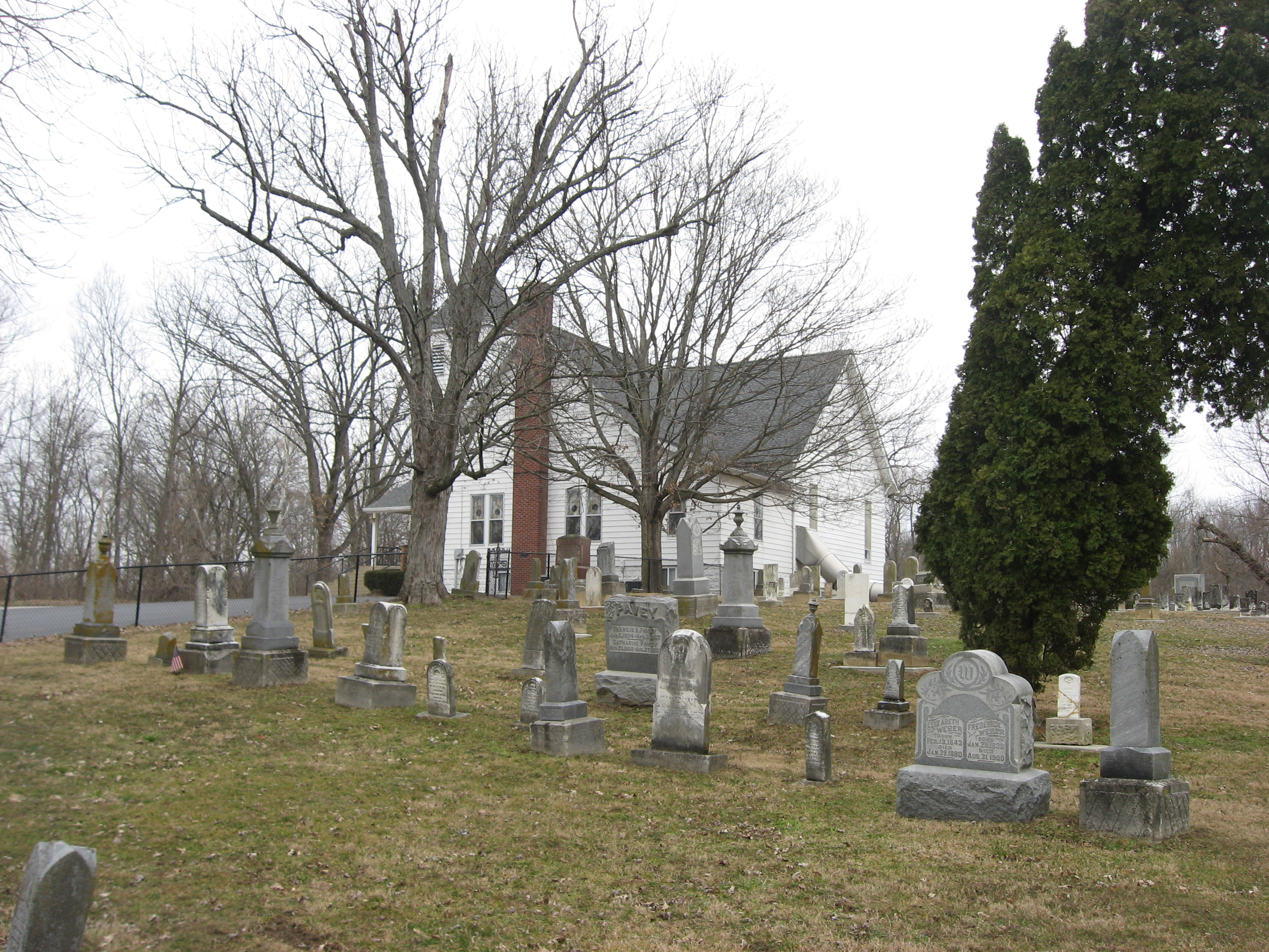 Western side of Salem United Methodist Church, located at 6701 S800E west of Zionsville in Eagle Township, Boone County, Indiana, United States. Built in 1885, it is part of the Traders Point Eagle Creek Rural Historic District, a historic district that is listed on the National Register of Historic Places.